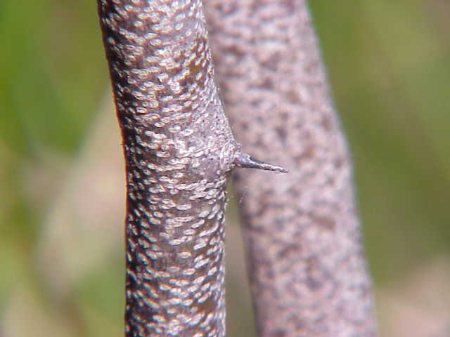 Species: Haematoxylon campechianum Family: Fabaceae Image No. 2